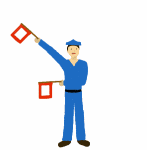 Letter O of the nautical semaphore flag signalling system Source: Martin Hawlisch (User:LosHawlos) My own drawing done in gimp First uploaded to de: in jun-2004